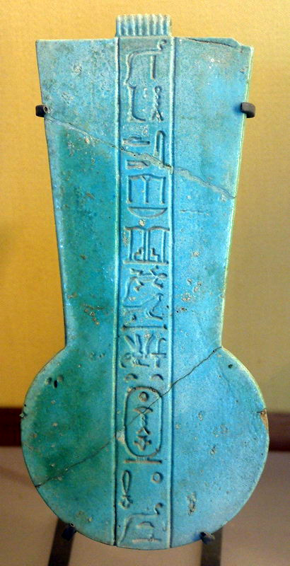 A counterpoise-(of Menat and Counterpoise) honoring the Heb-Sed Festival-(of Pharaoh Psammetichus I).The column of hieroglyphs start: "Say-(cobra and word-speech)": H-b, S-d-(+plinth determinative), then 3 festival determinatives: Hall, Basin(festival), Pavilion; the rest continues with the Lizard hieroglyph, etc.Maybe: "Announcement: Heb-Sed, ....Nesu-Bity-(King of the South, the North-(Delta)), (cartouche-Psammetichus), Ra-Ma-(Like-Ra), djet-(forever)", i.e. "Announcement, Heb-Sed, ("The Peoples"...Great-One), "Nesu-Bity Psammetichus", Ra-Ma, forever."(the three untranslated dots refer to "lizard-great-One"-(single stroke determinative after great-(Swallow bird)))-(the Lizard hieroglyph can refer to the idea of "multitudes"-i.e. numerous)-(it should be remembered that: 'democracy', is Greek demotoles, the citizens)(thus Demotic Egyptian, democracy, etc; Psammetichus-(Psamtik I) was at the beginning of Greece writing-(600's BC) and the beginning of full-fledged Demotic which ascended towards 198 BC, Rosetta Stone tiem).